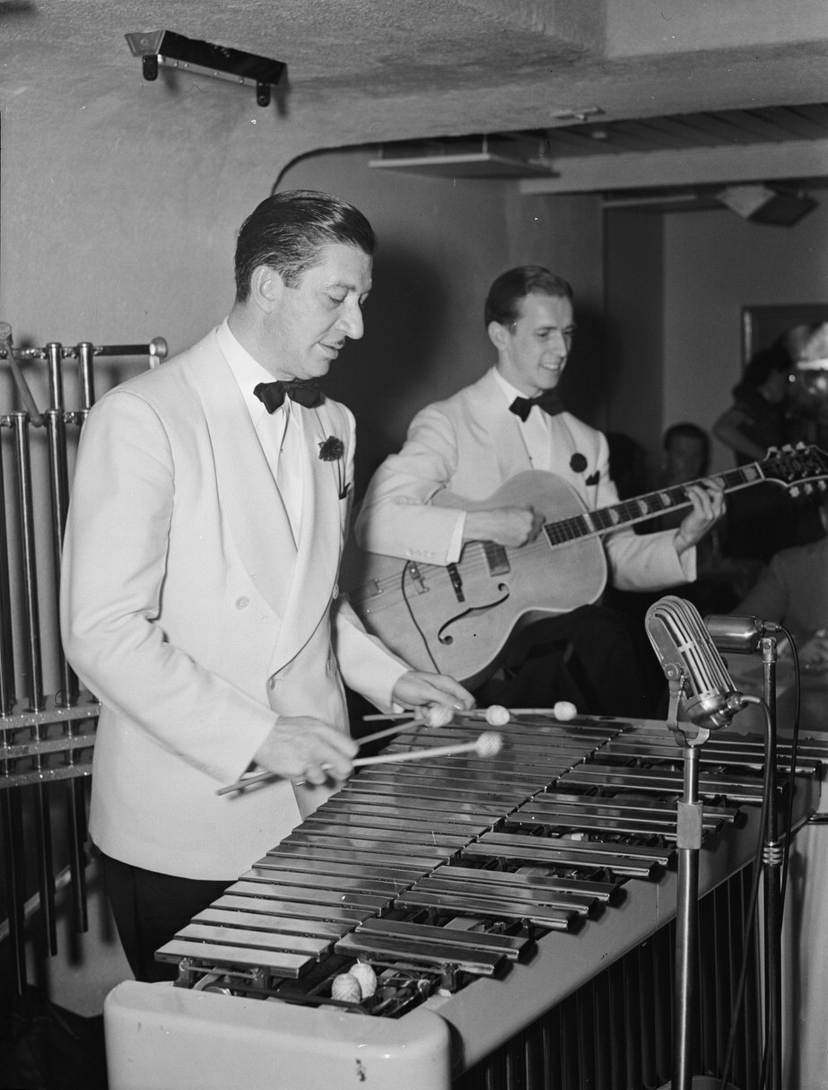 Adrian Rollini (left) and Allen Hanlon (between 1946 and 1948)